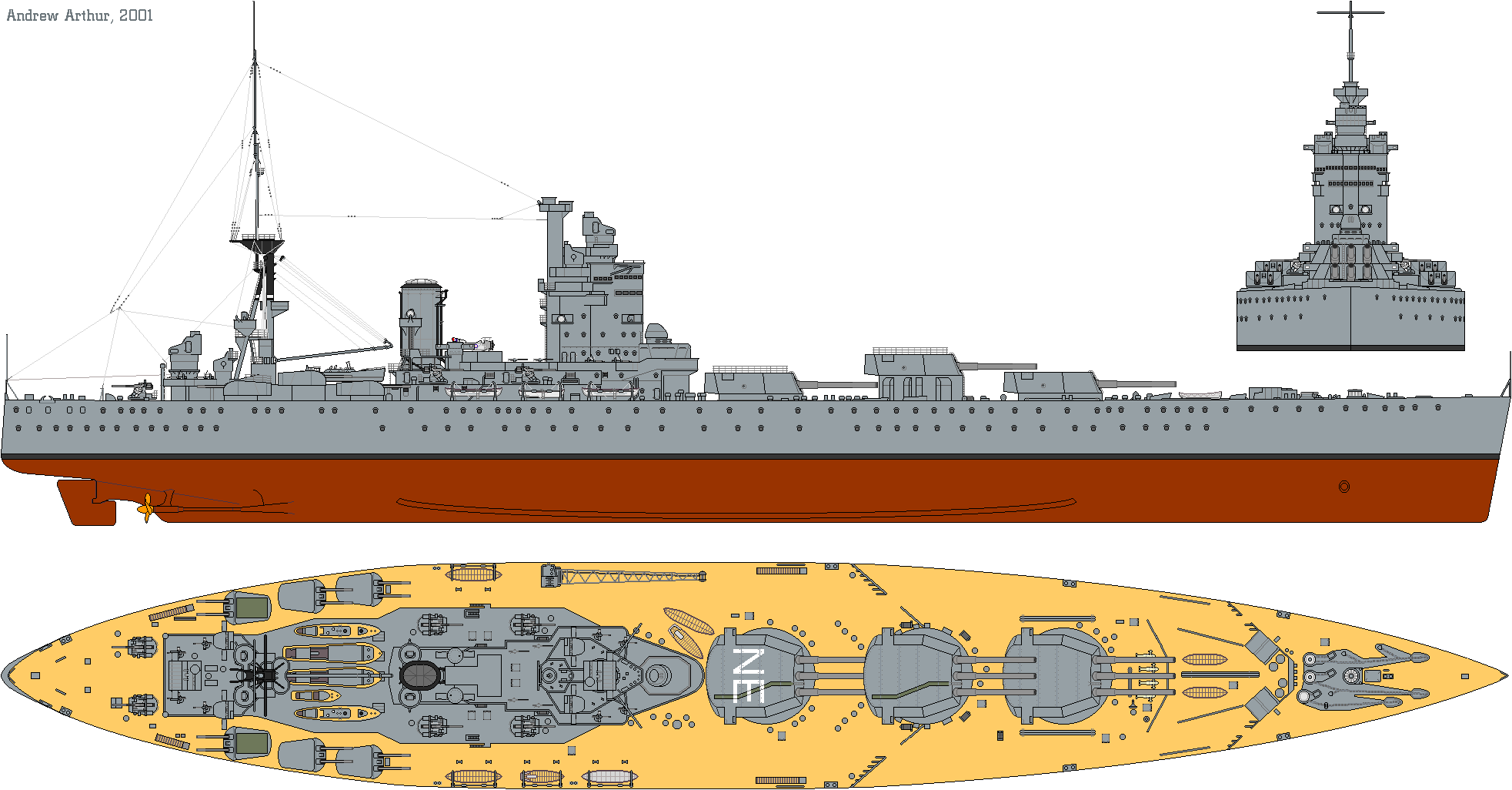 HMS Nelson, Royal Navy battleship, as she was in 1931. 1/450 scale.